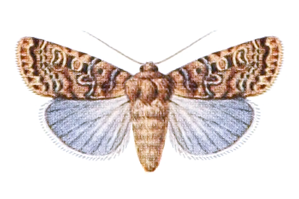 [Agrotis] bolteri (Smith) = Xestia bolteri (Smith, 1898), ♀, New Mexico.